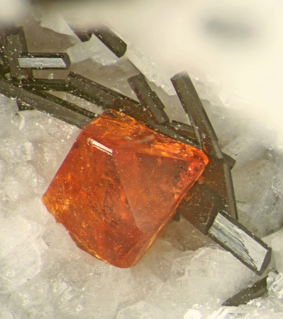 FOV 2.5 x 2.8 mm. Found August 1997 (Poudrette quarry, Mont Saint-Hilaire, La Vallée-du-Richelieu RCM, Montérégie, Québec, Canada). MOB coll. This specimen was identified at the Canadian Museum of Nature. It came from an igneous breccia and was associated with khomyakovite ( and and manganokhomyakovite ( from which it is visually indistinguishable. (Most xls are zoned. This particular xl may or may not be predominantly ferrokentbrooksite but the analysis showed ferrokentbrooksite on this specimen and it appears to be the most common eudialyte group member in this find.) The dark prisms are probably an amphibole such as richterite.